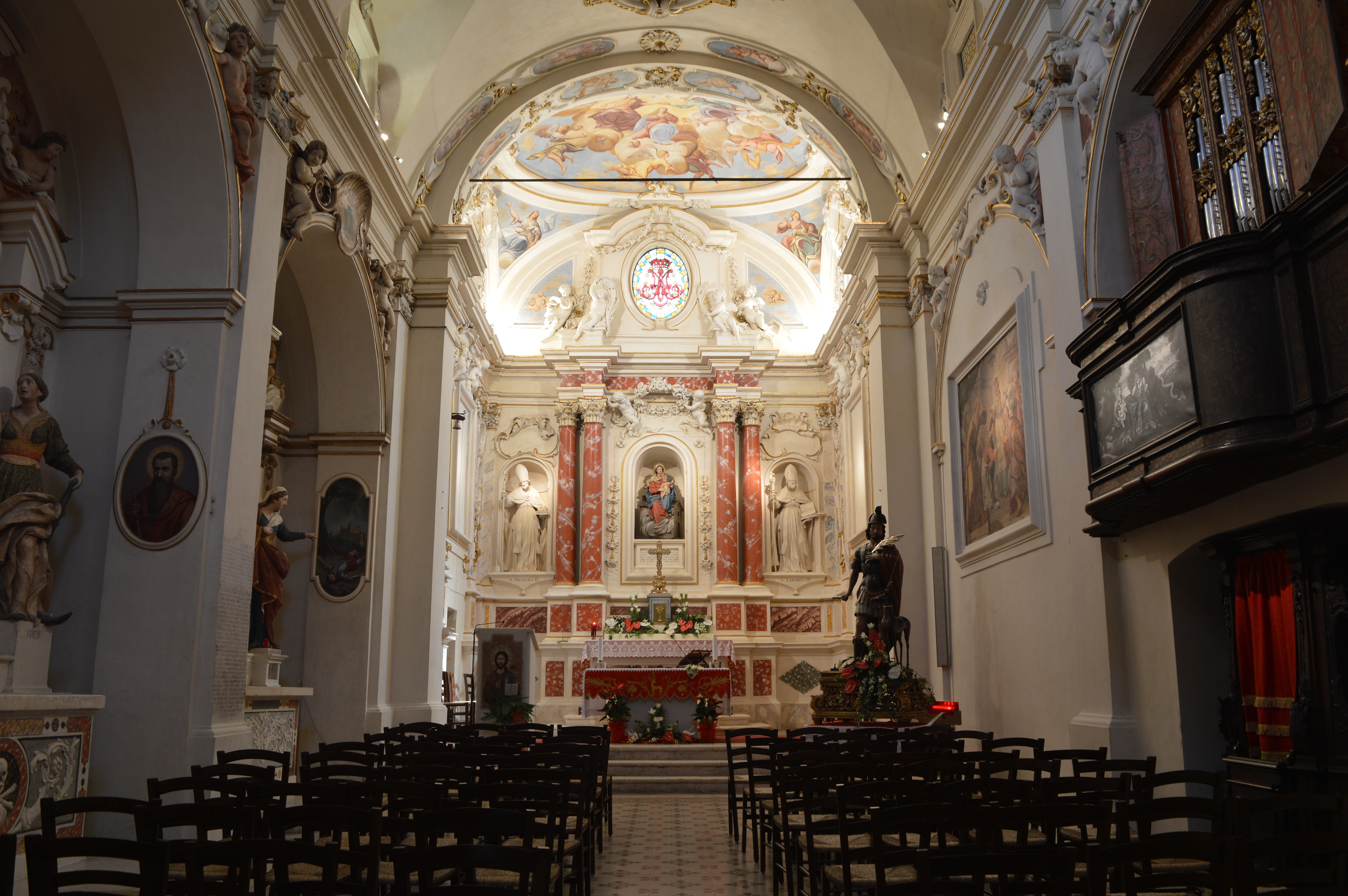 Interno